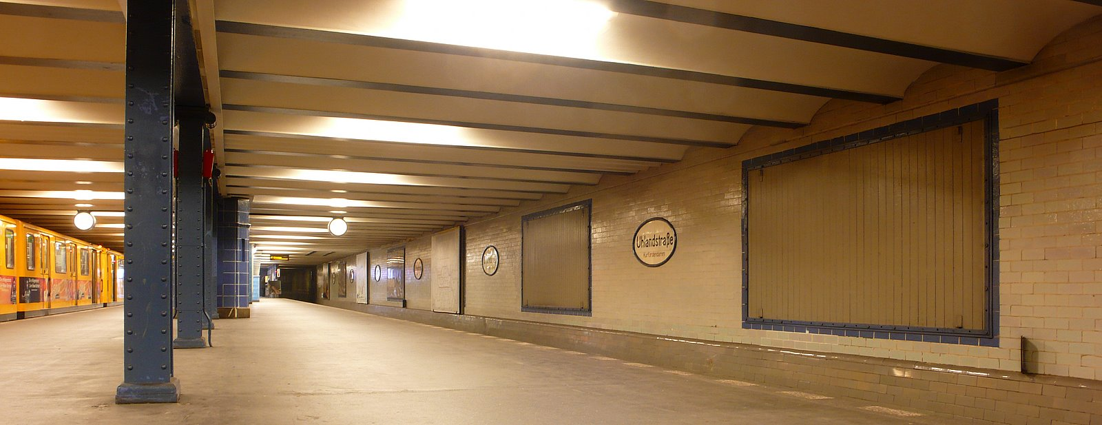 Uhlandstr